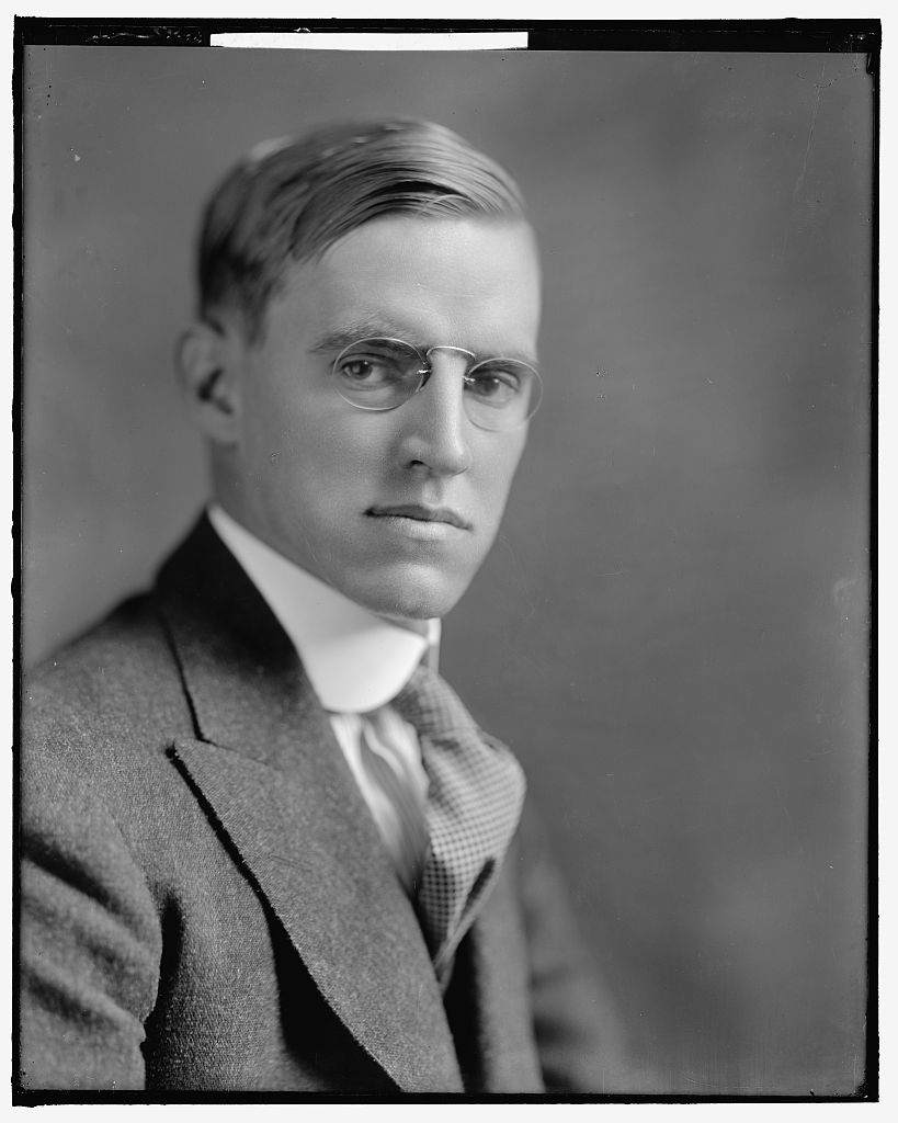 Title: SLATTERY, HARRY Abstract/medium: 1 negative : glass ; 8 x 10 in. or smaller